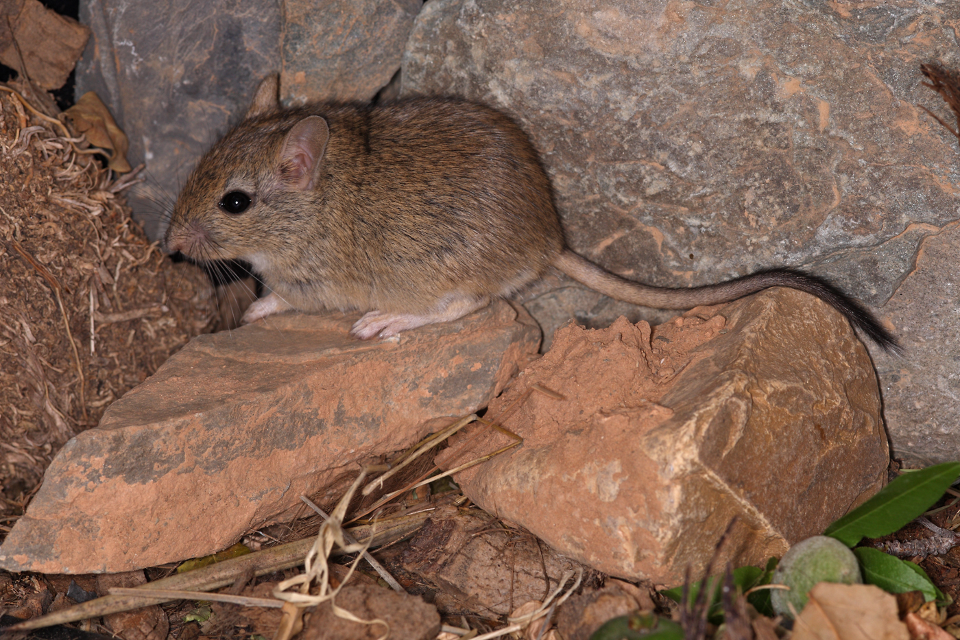 Meriones crassus Anti-Atlas Mts. in Morocco